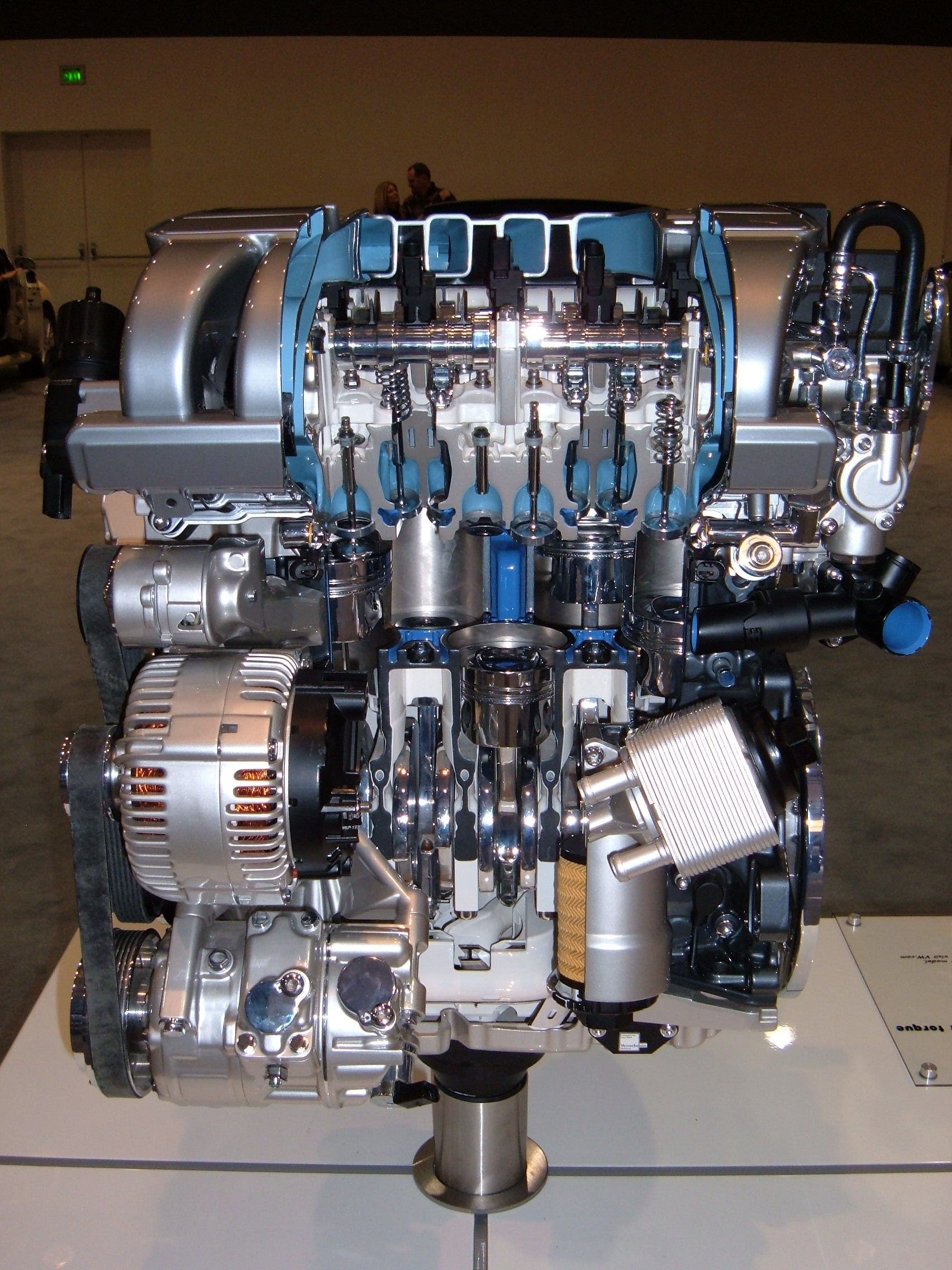 A Volkswagen Touareg 3.6L 280 horsepower engine at the 2008 San Francisco International Auto Show.